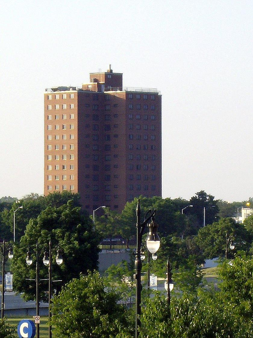 self made